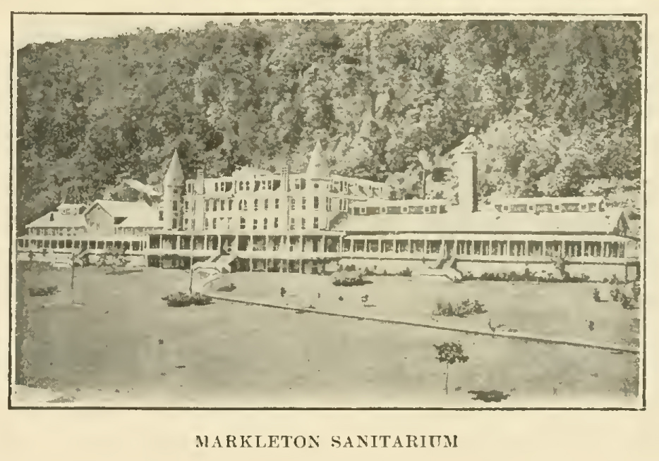 Photograph of Sanitarium in Markleton, Pennsylvania, that appeared in Baltimore & Ohio Railroad Company's Book of the Royal Blue, April 1909, Vol. 12 No. 07, Page 13